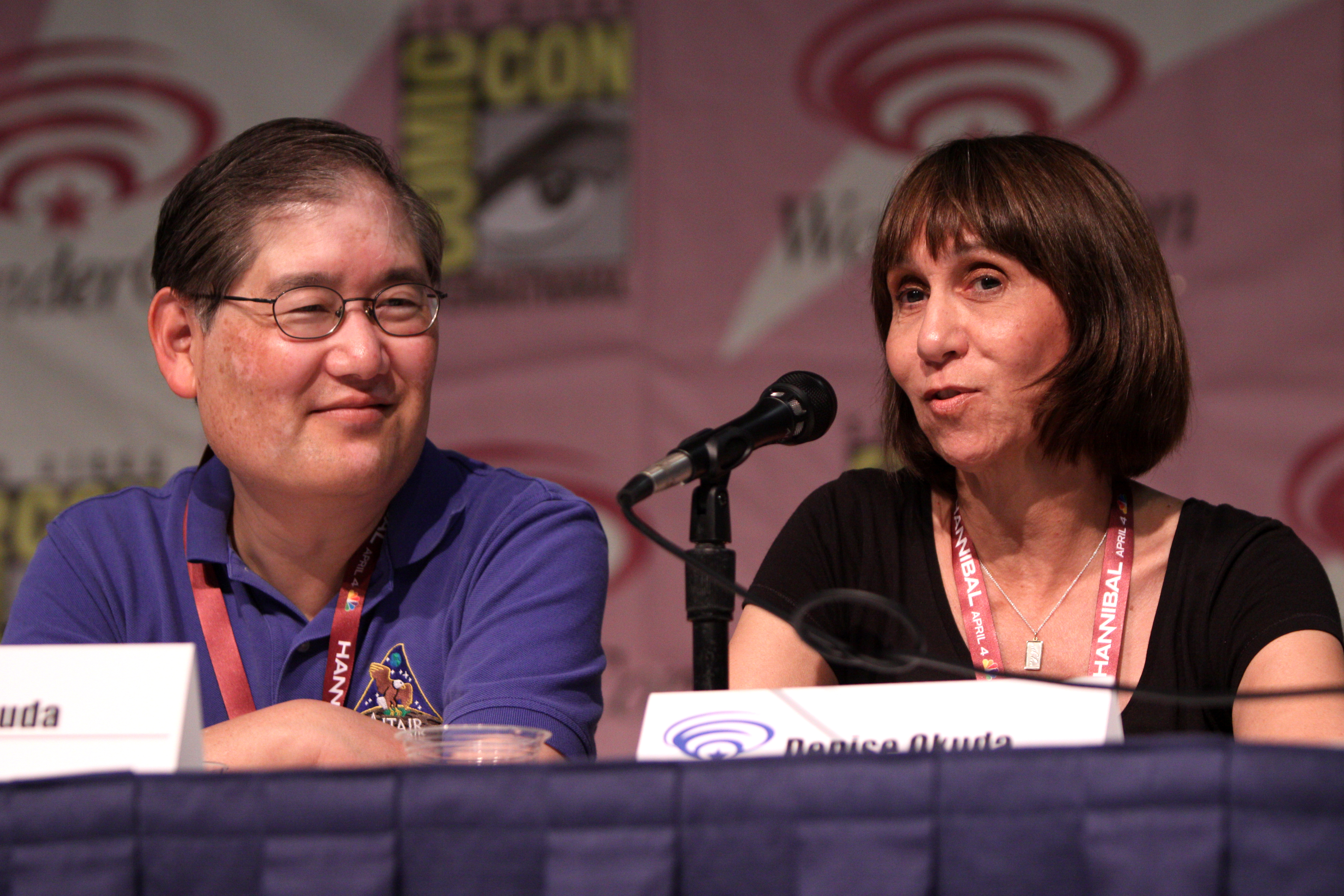 Michael and Denise Okuda speaking at the 2013 WonderCon at the Anaheim Convention Center in Anaheim, California.